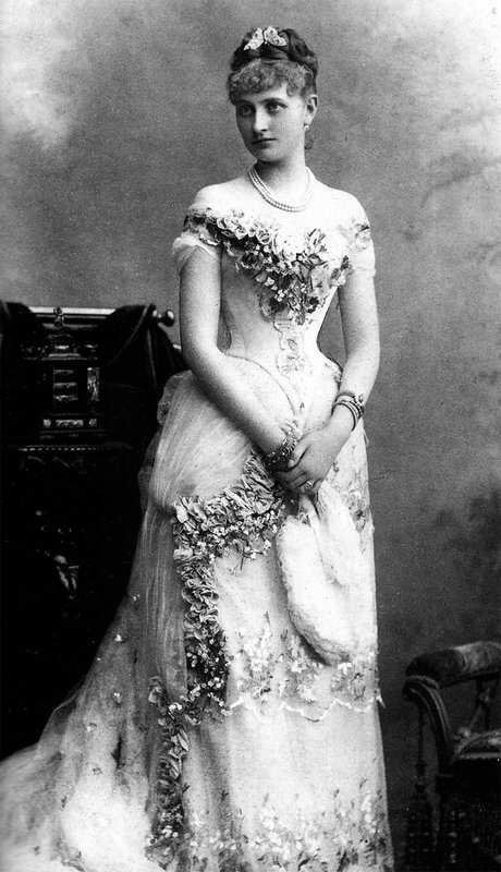 Archduchess Maria Josepha of Austria (nee Princess of Saxony)